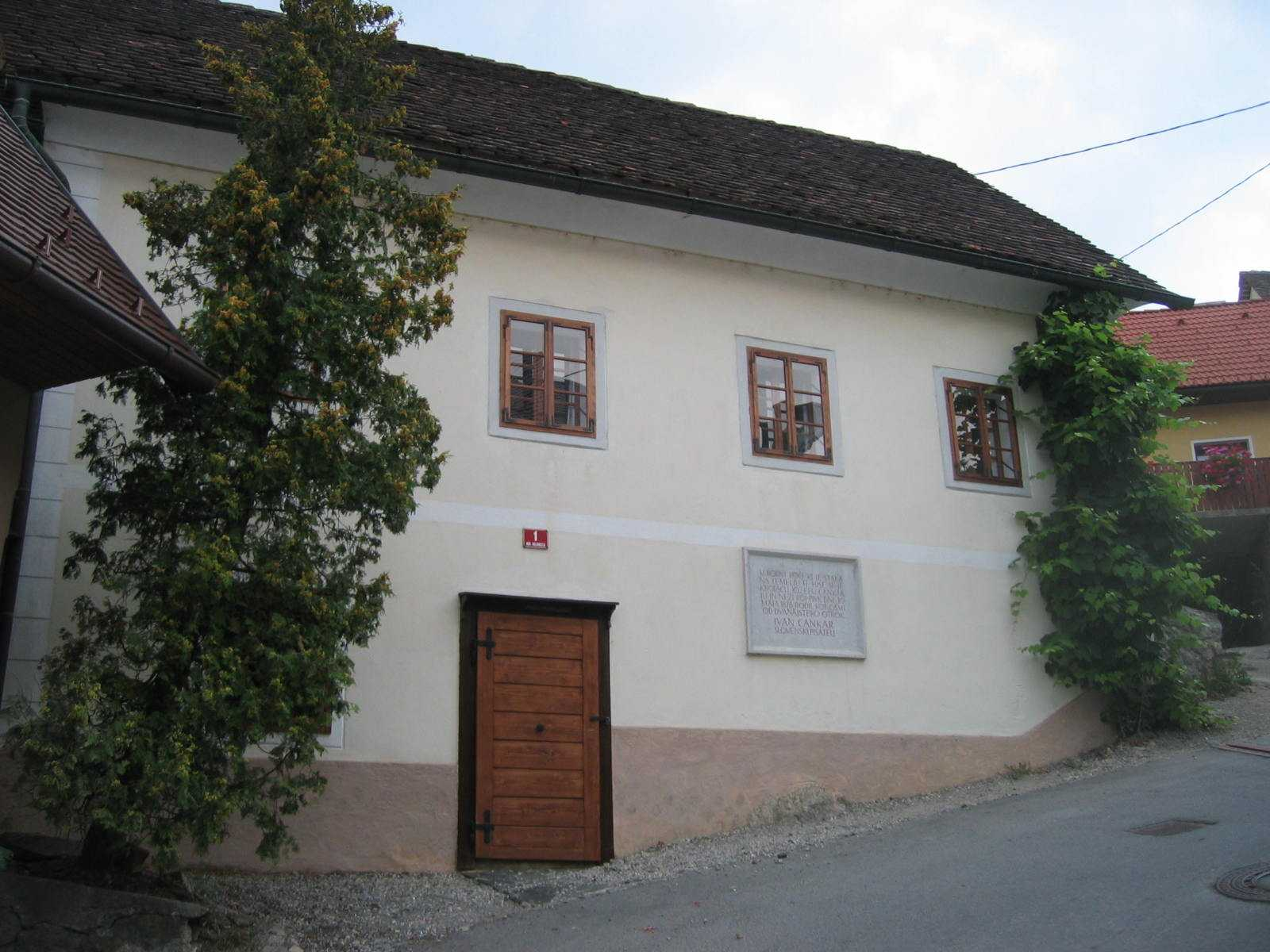 Ivan Cankar (slovenian novelist) memorial house (which stands in the same spot as his birth-house) at Vrhnika, Slovenia. photo:Ziga 18:26, 29 July 2006 (UTC)